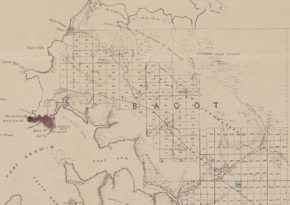 Hundred of Bagot (Darwin, formerly Palmerston)